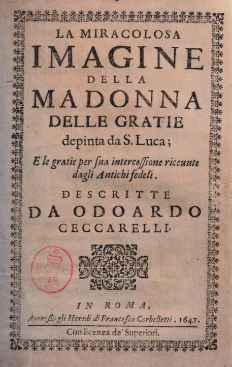 Title page of La miracolosa imagine della Madonna delle Gratie depinta da S. Luca by Odoardo Ceccrelli